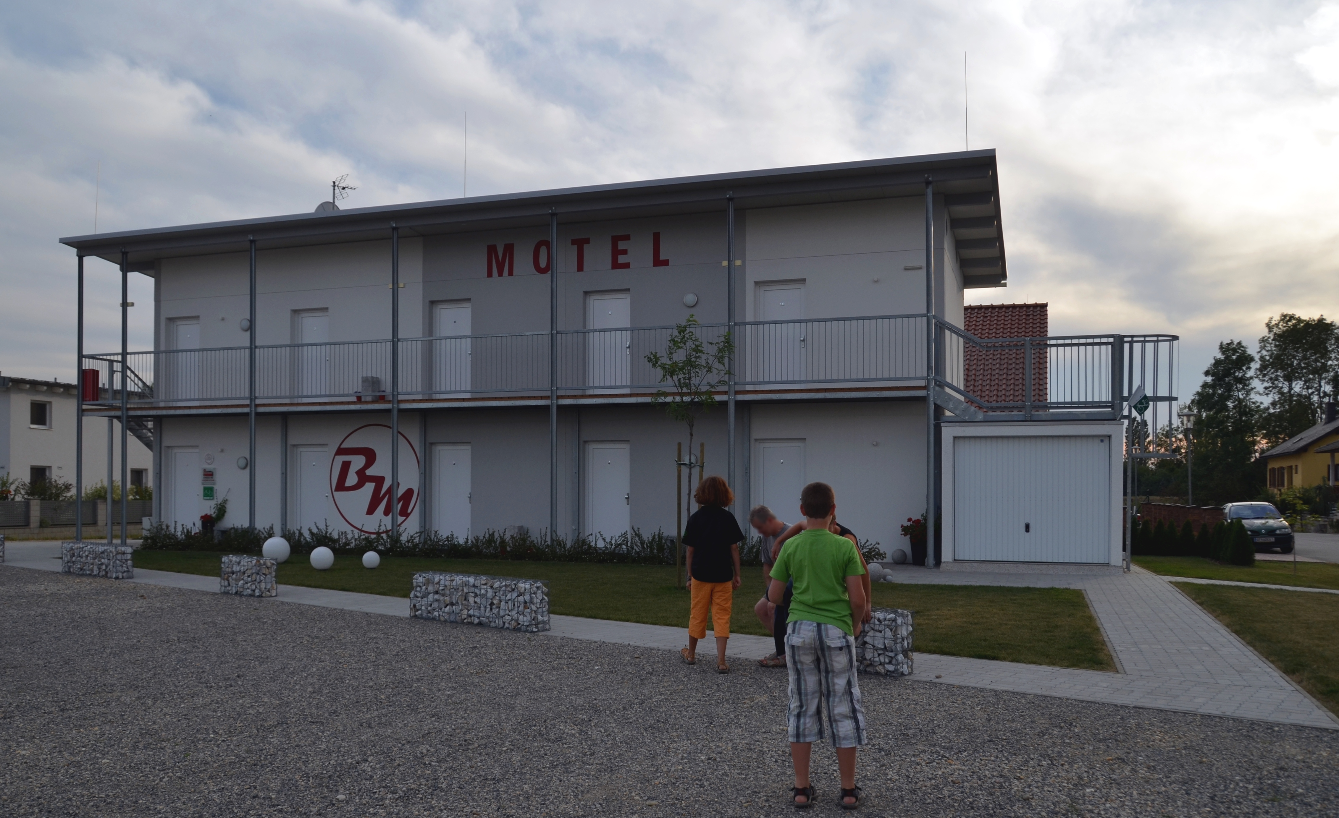 Motel Marchegg, Lower Austria.